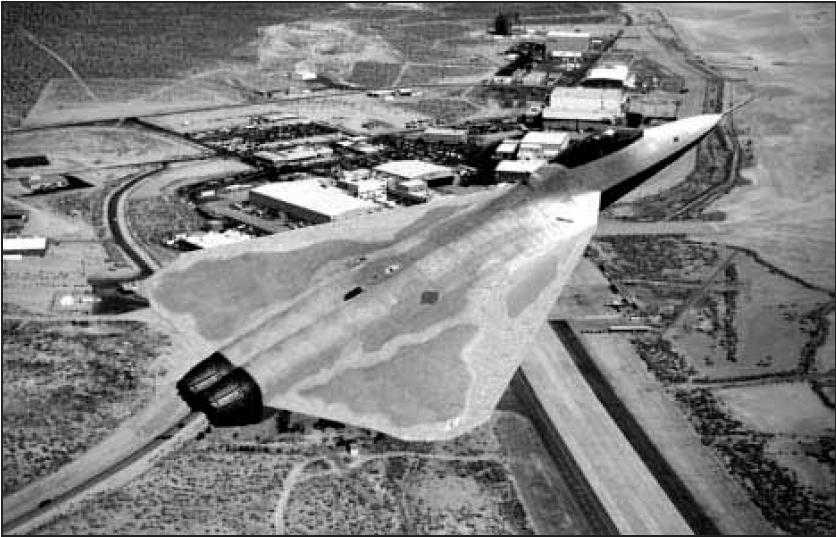 A speculative artist concept of the Lockheed Martin X-44 tailless research aircraft.